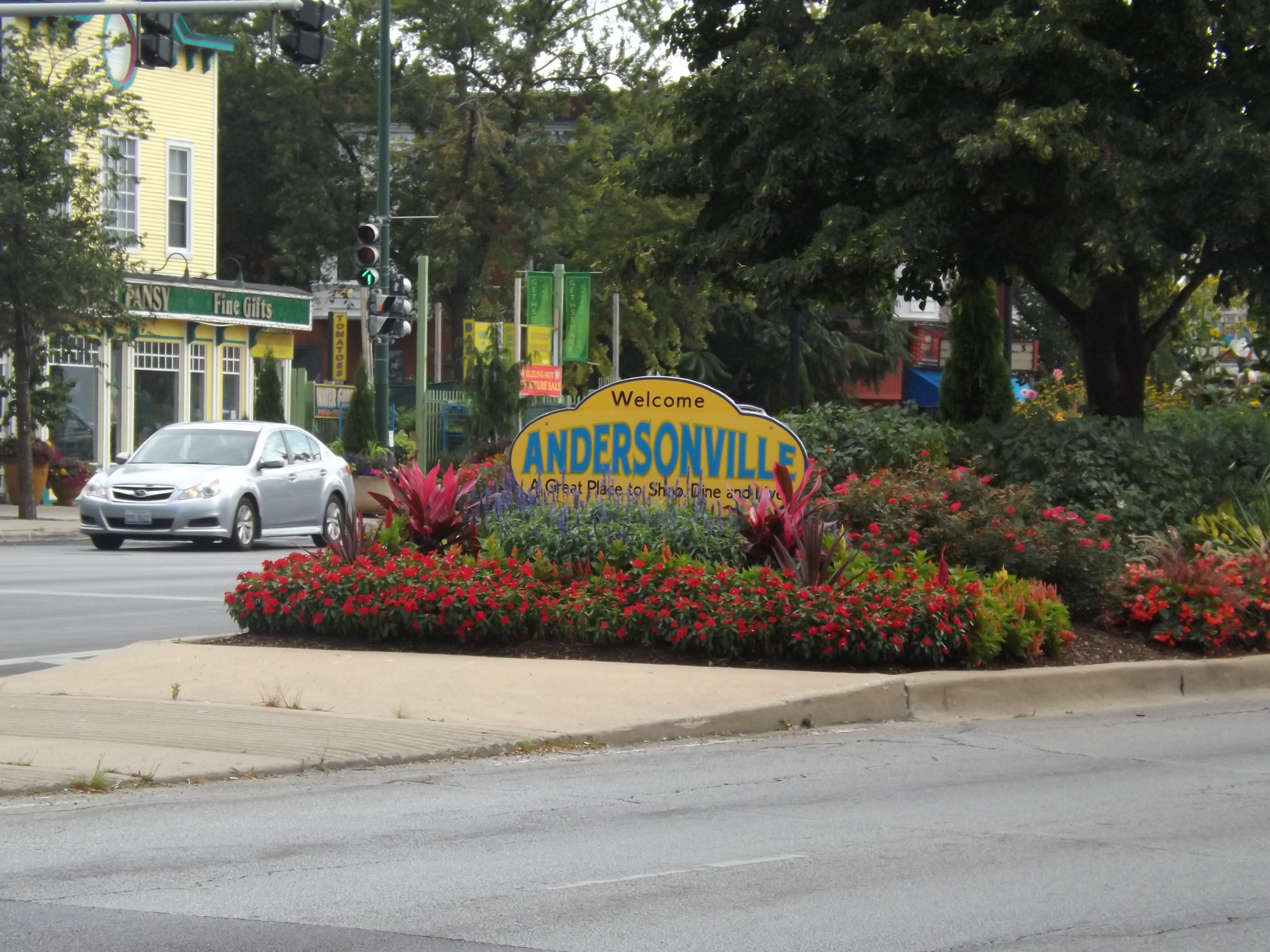 Welcome to Andersonville sign viewed going South at the split between Clark Street and Ashland Avenue in Chicago.